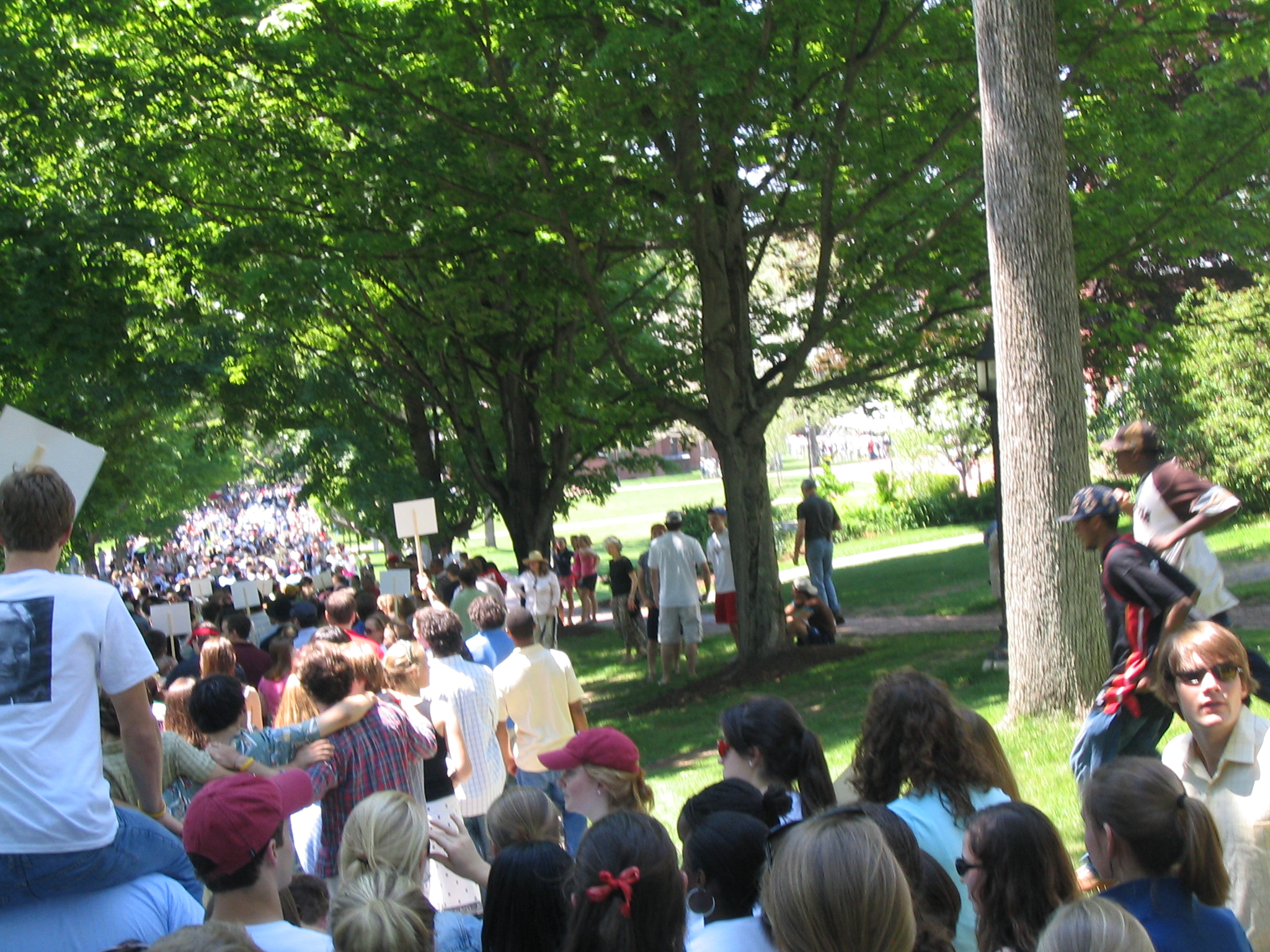 Michael Juel-Larsen 6/4/2005